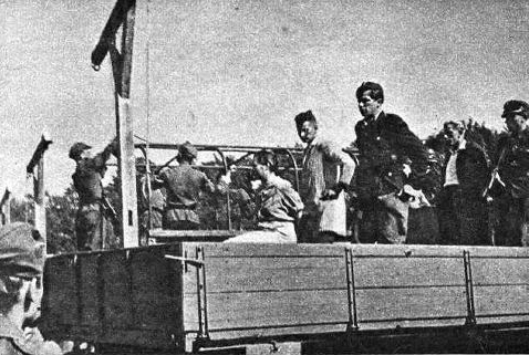 Execution of concentration camp guards at Biskupia Gorka: Barkmann before execution